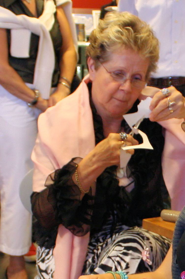 Finnish silhouette artist Sirkka Lekman was cutting silhouets in Post Museum on the Night of The Arts in Helsinki 2009